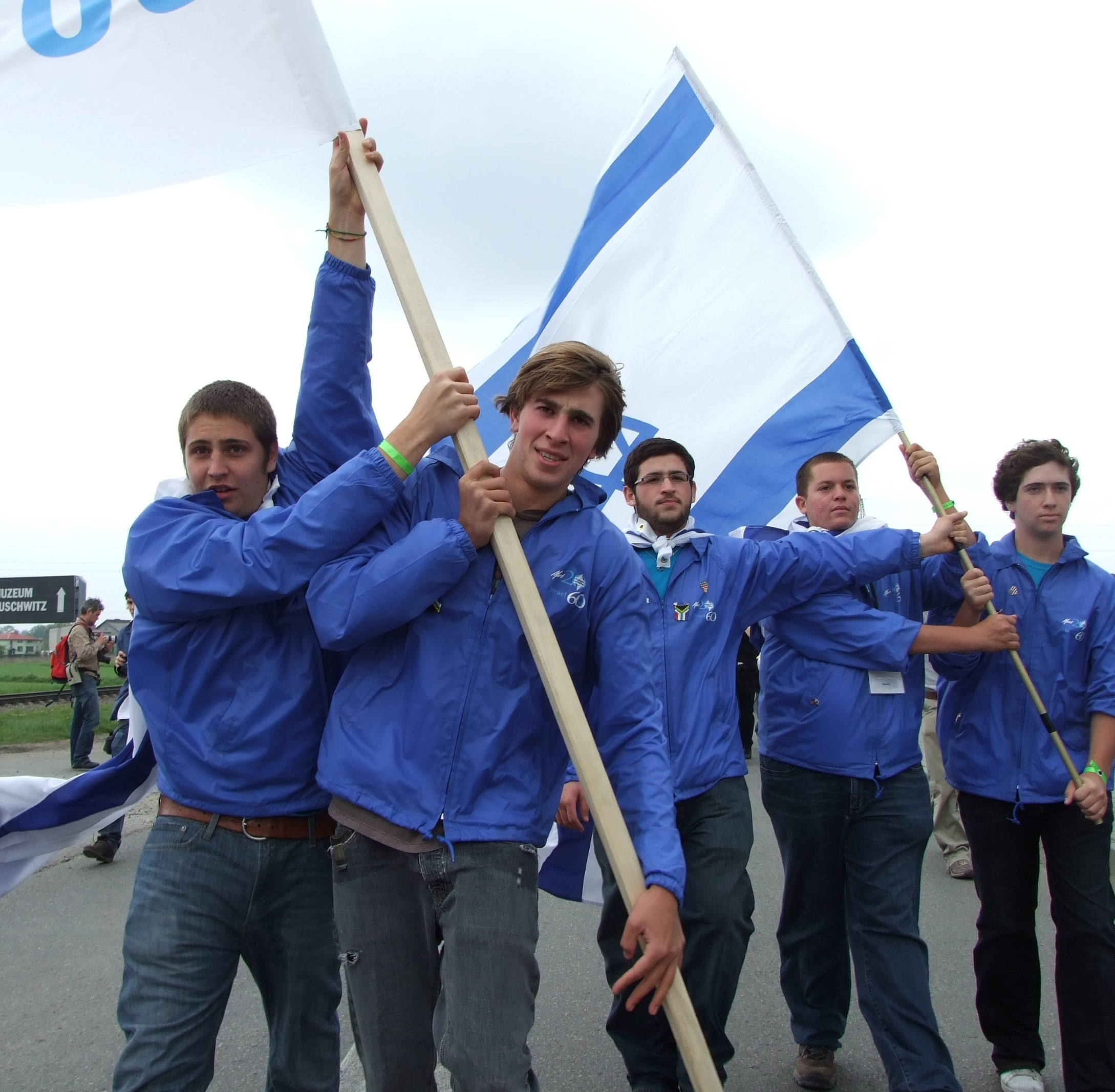 Photo form March Of The Living in 2008, soon more of them, you can contact me at